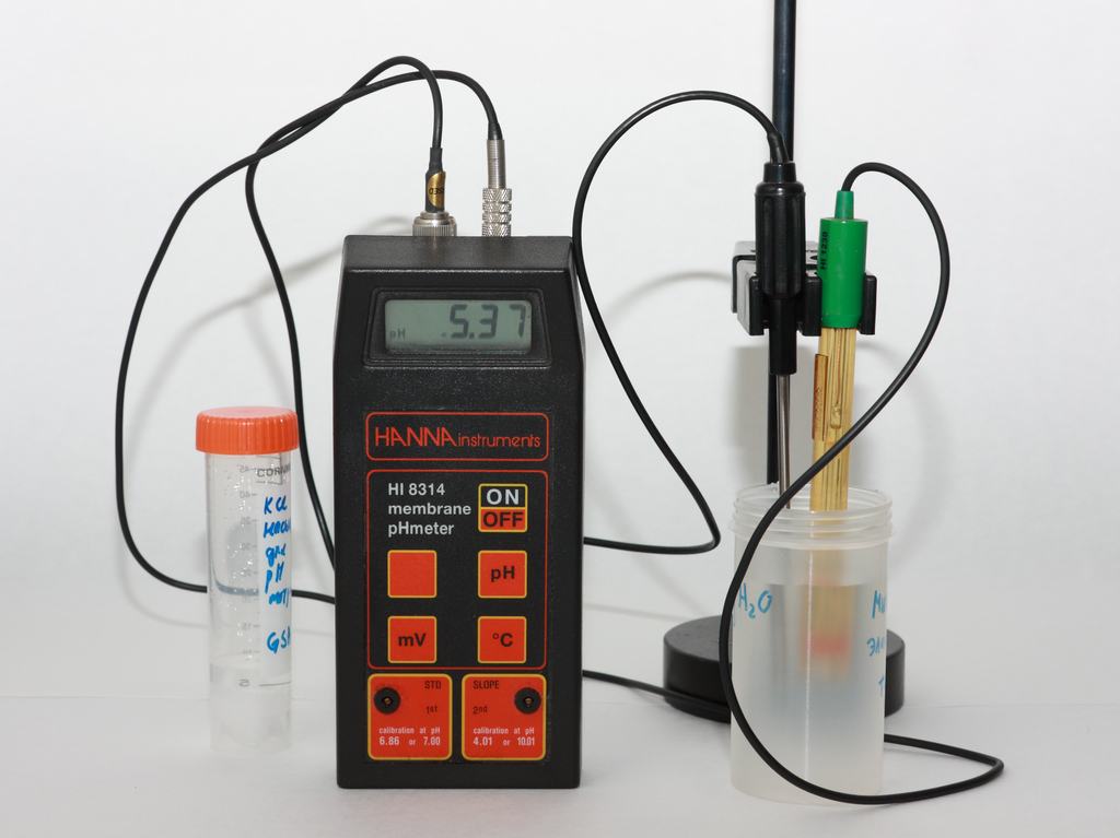 Even if not in use, pH-probe should be checked in two weeks basis. And beware of fungi that can grow in the probe storage solution.